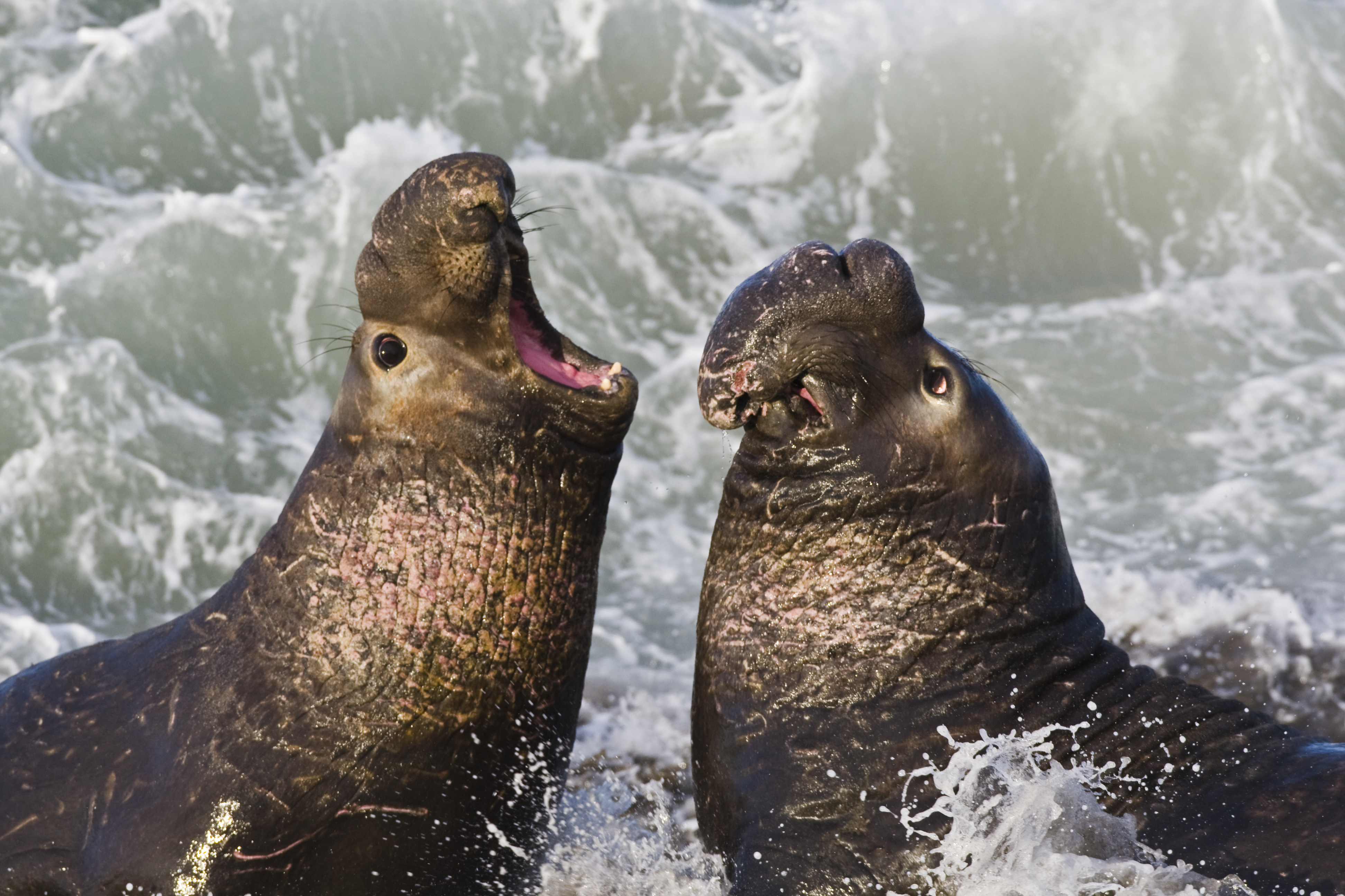 Northern Elephant Seal (Mirounga angustirostris), Piedras Blancas, San Simeon, CA 02feb2008 - photo by Michael "Mike" L. Baird Canon 1D Mark III w/ 600mm f/4 IS lens on tripod